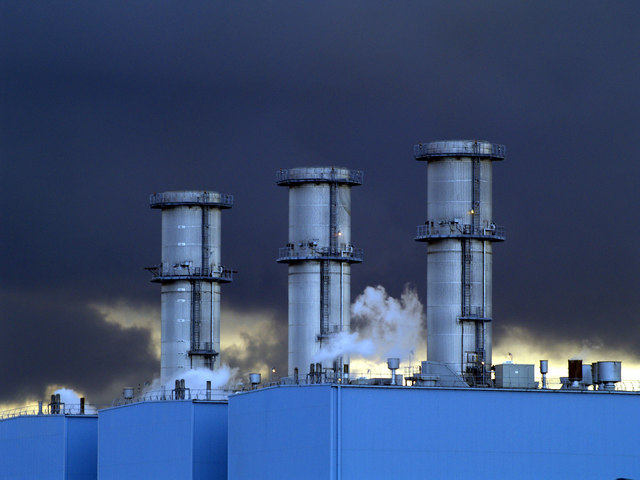 Saltend Power Station, Salt End, East Riding of Yorkshire, England.